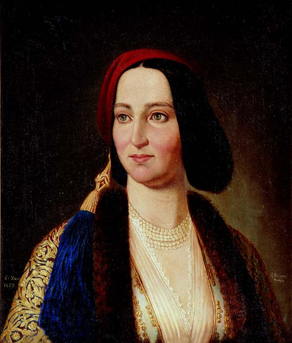 Duchess Amalia of Oldenburg (1818–1875), by marriage the Queen Consort of Greece.